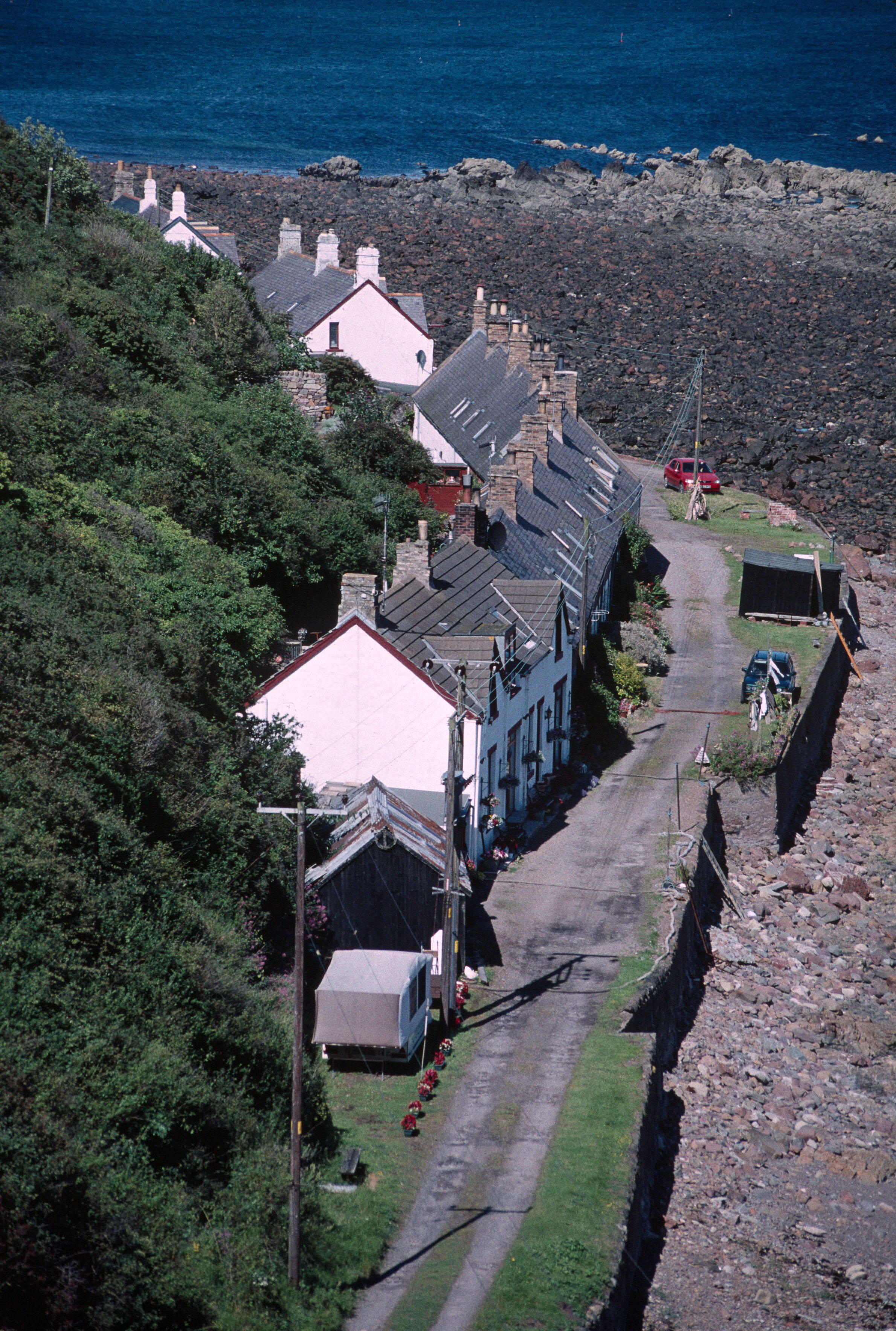 Partanhall, taken from the church on the hill It looks like the village from the film Local Hero